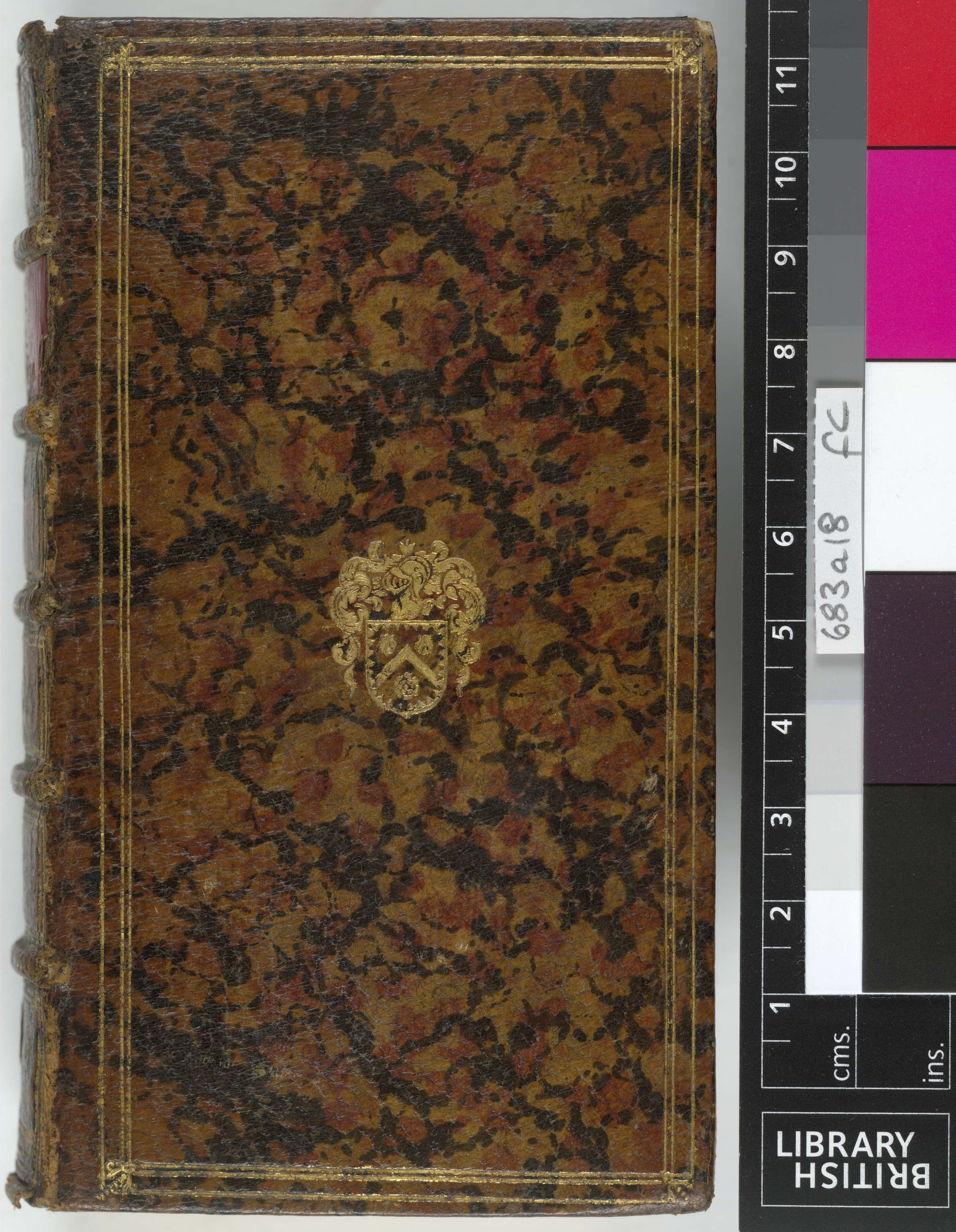 Style: Armorial; Caption: Upper cover; Colour: Brown; Edge: Unspecified